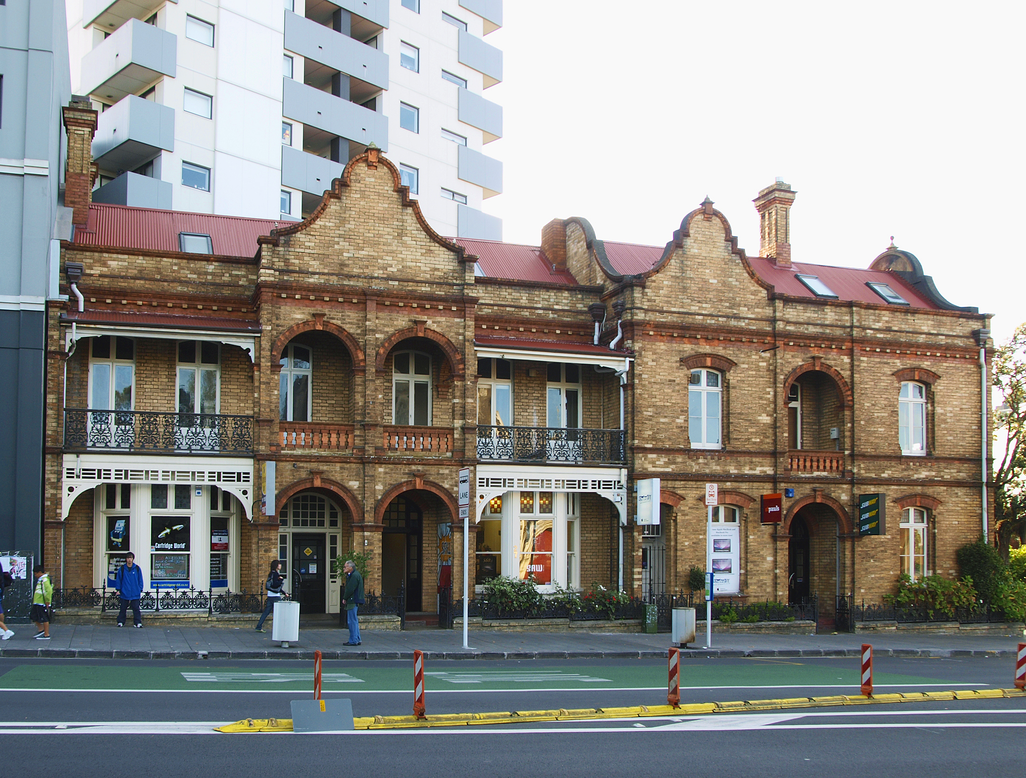 Terrace Houses, 29, 27, 25 Symonds Street, Auckland, New Zealand. Build 1897 as residential buildings and associated place houses for John Endean.